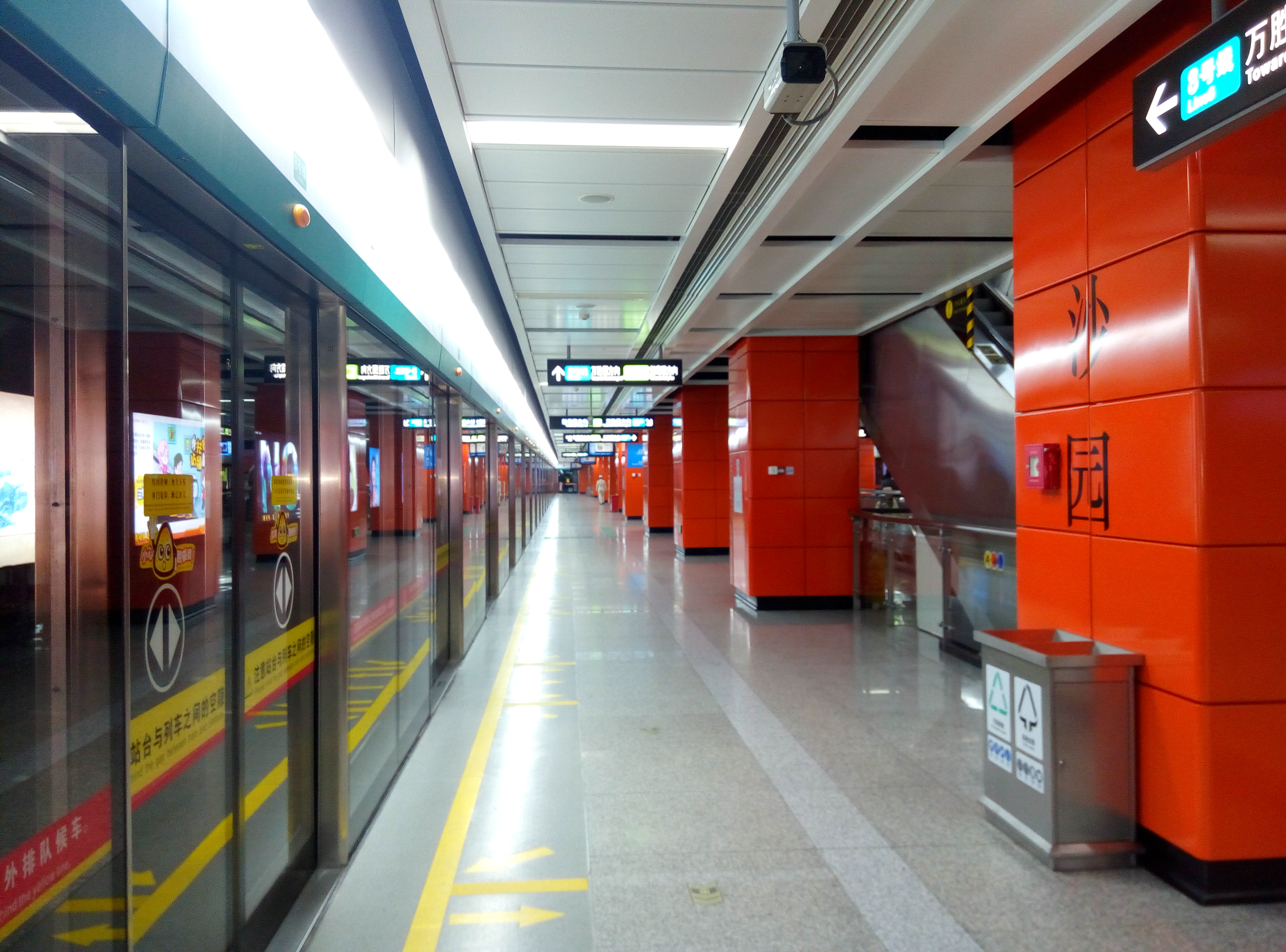 沙園站8號綫嘅月台